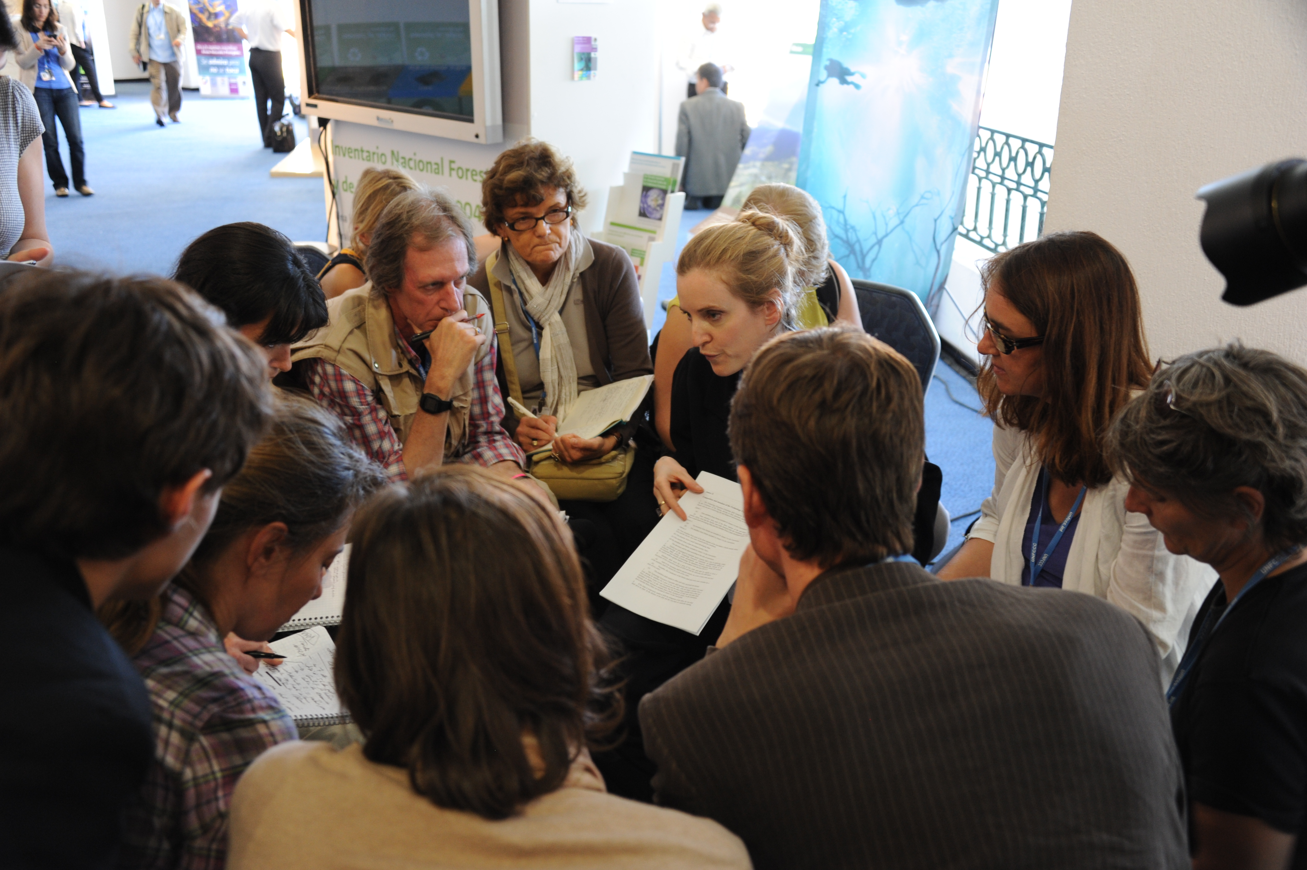 UN Climate Talks 2010. Cancun, Mexico. by United Nations